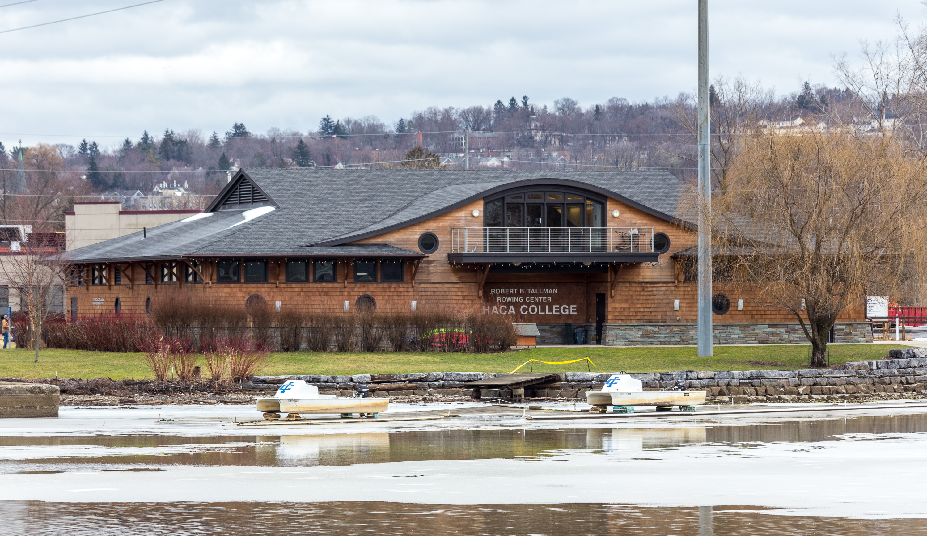 Robert B. Tallman Rowing Center, Ithaca College. Dedicated November 3, 2012.